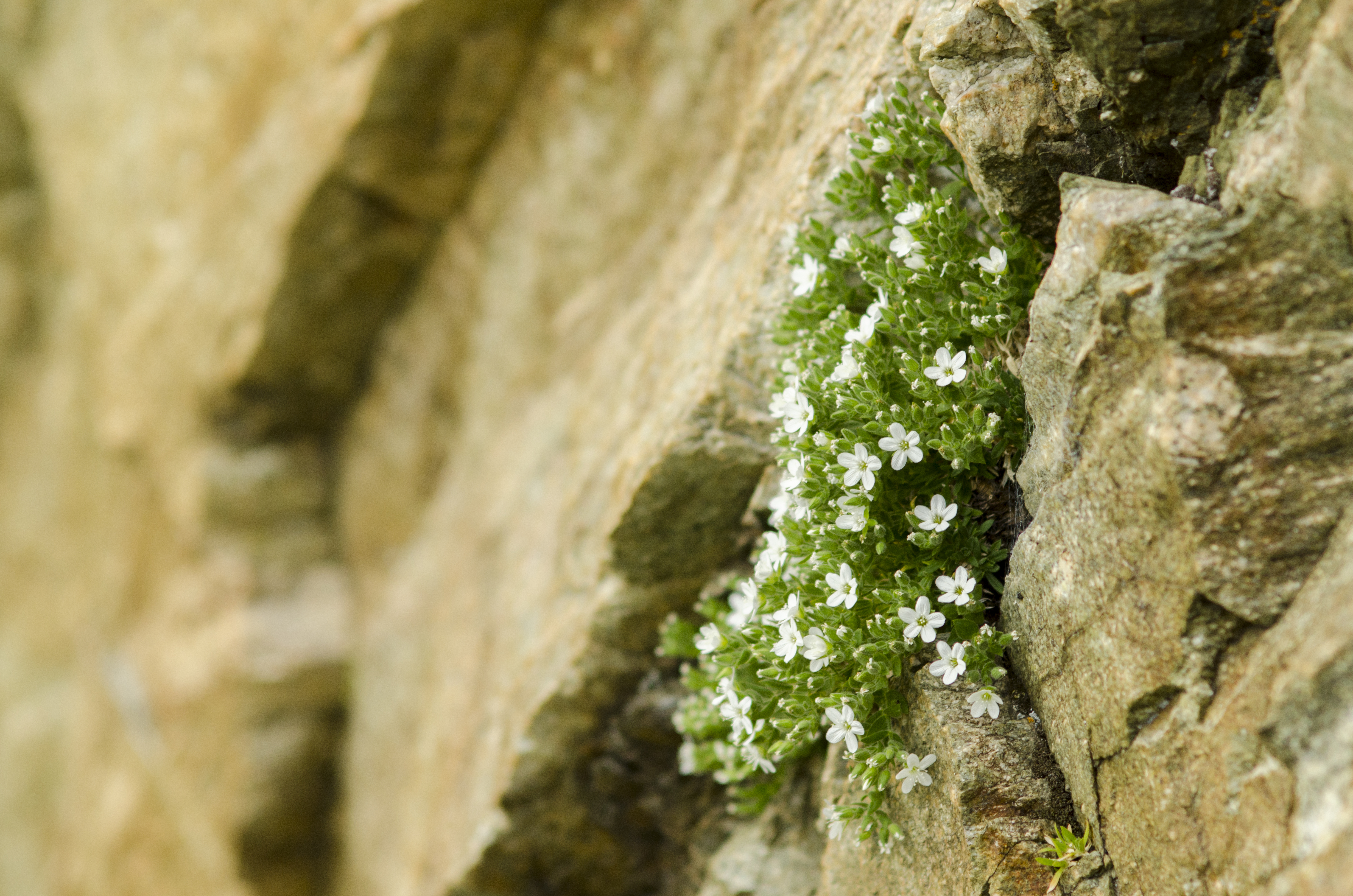 Arenaria rhodopaea